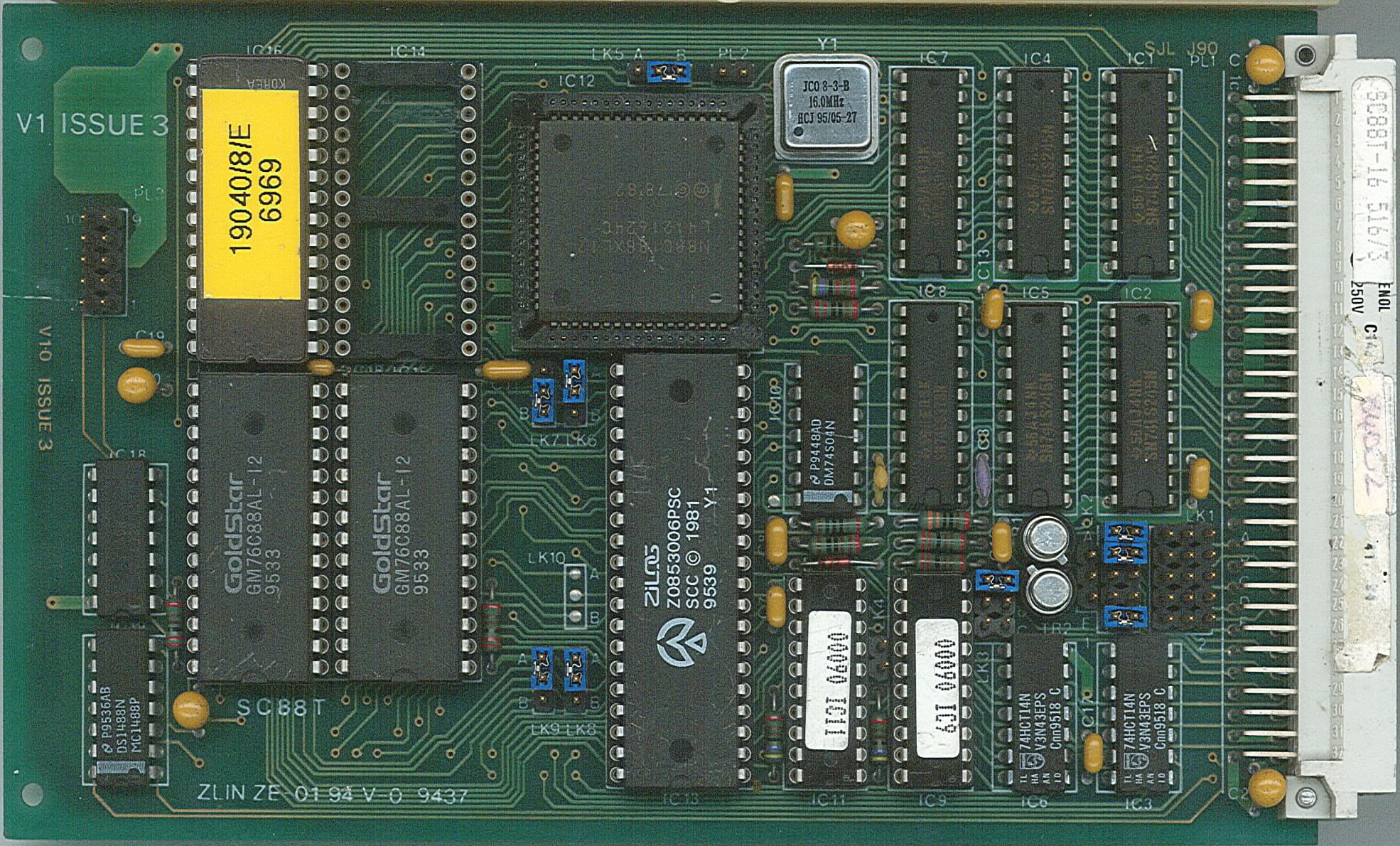 STEbus 80C188 CPU on 100x160mm Eurocard. Designed by Arcom Control Systems in 1986.